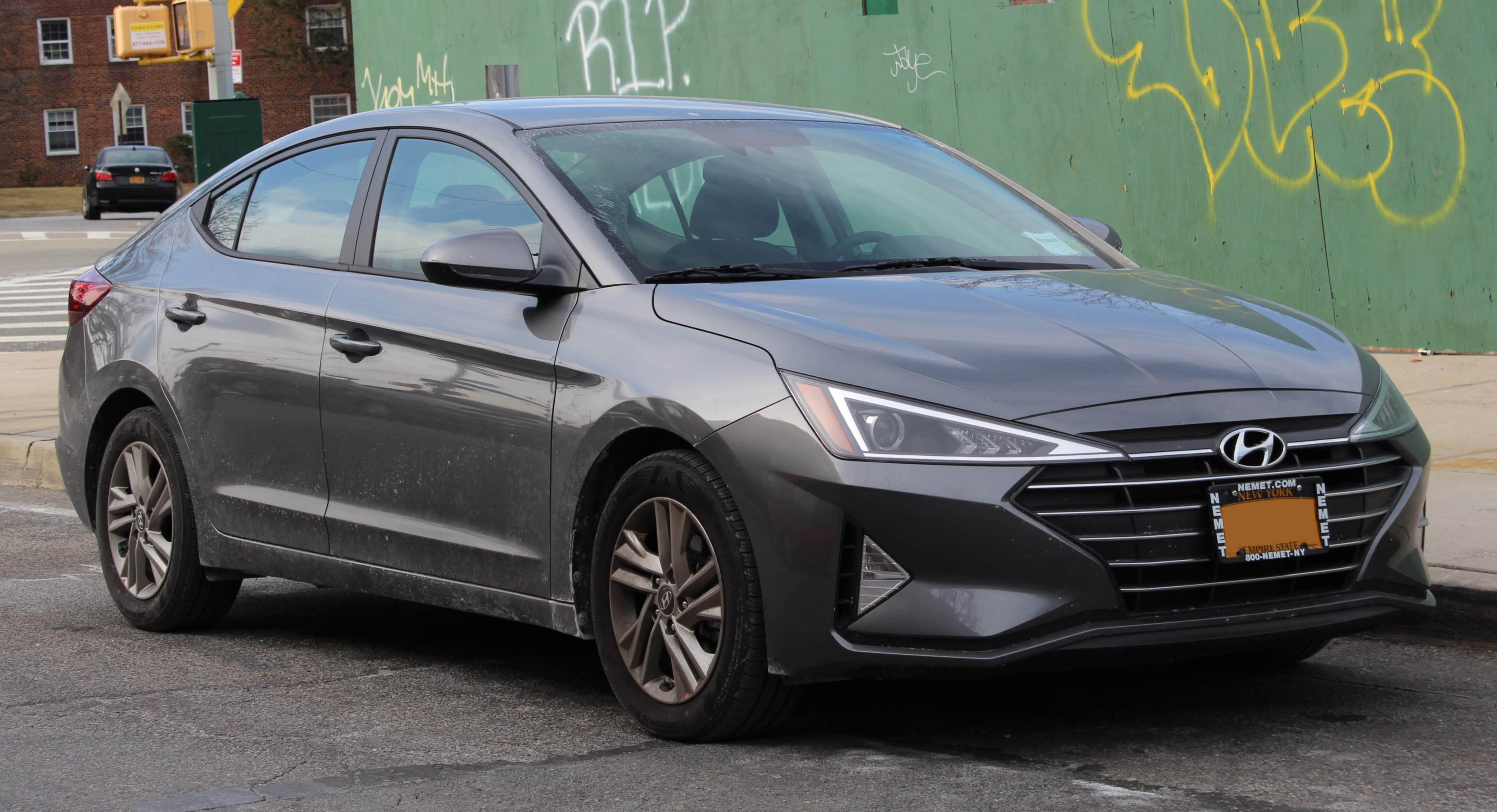 photographed in Queens, New York